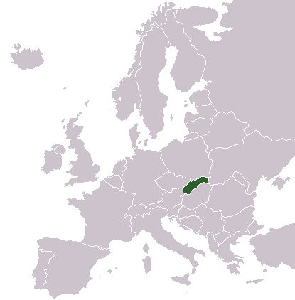 Location of Slovakia in Europe.